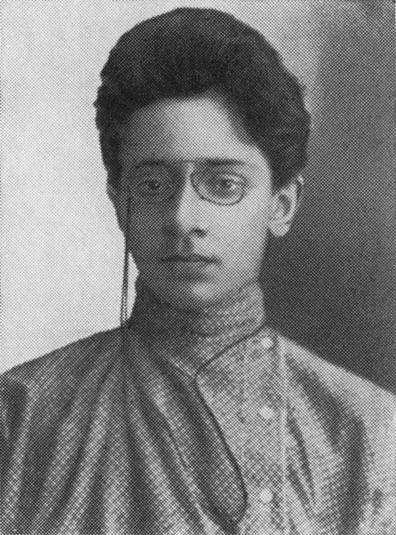 Yakov Sverdlov (1885-1919)